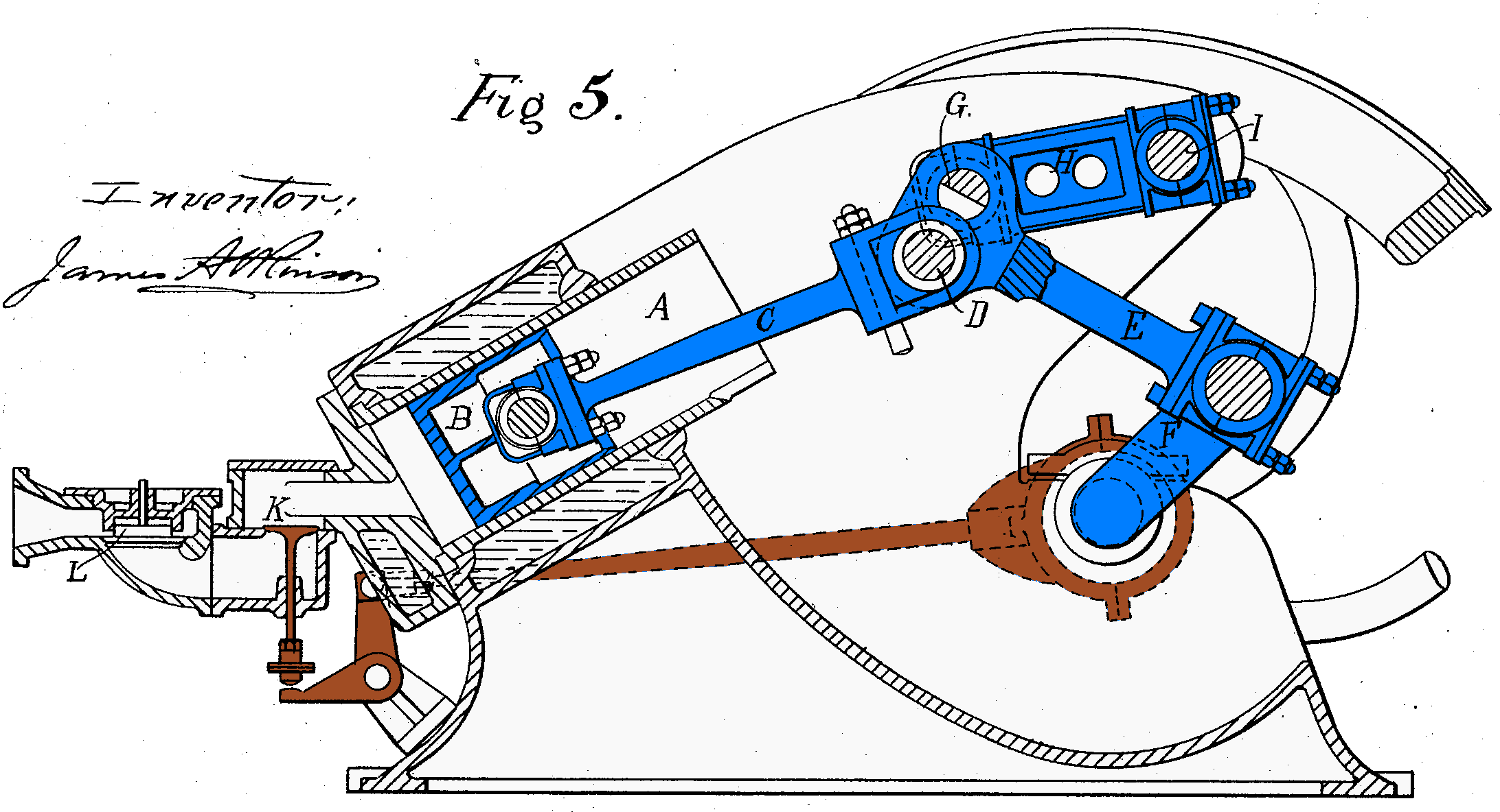 Internal Atkinson-Gas-Engine